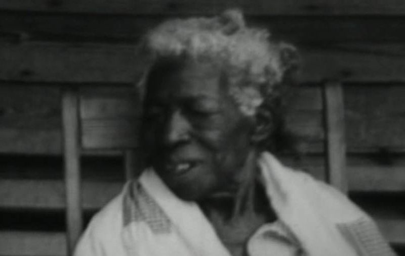 Redoshi (c. 1848 – 1937), a West African woman taken into slavery, identified as "Aunt Sally Smith" in The Negro Farmer (1938)